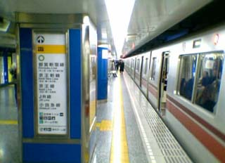 Shinjuku Station of Oedo line, Tokyo, Japan.